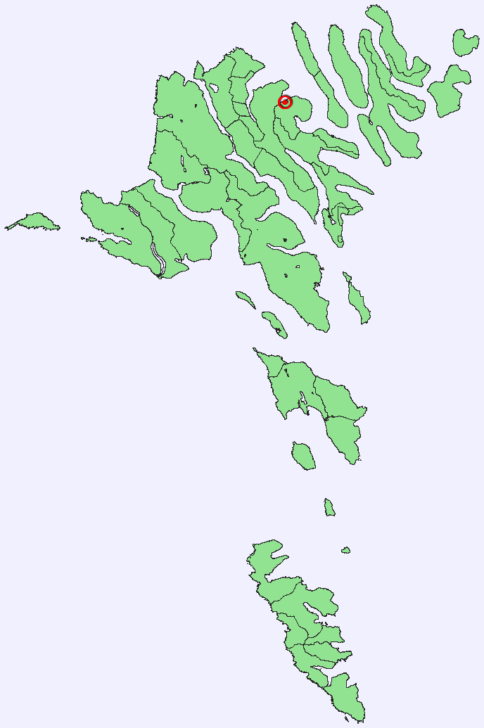 Position of Hellur in the Faroe Islands